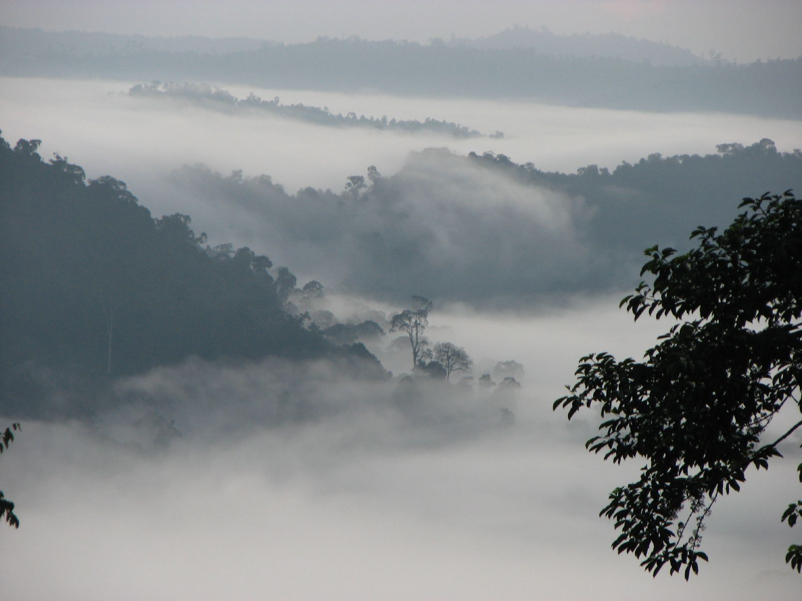 Misty morning in the Danum Valley Conservation Area on Borneo, Sabah, Malaysia.